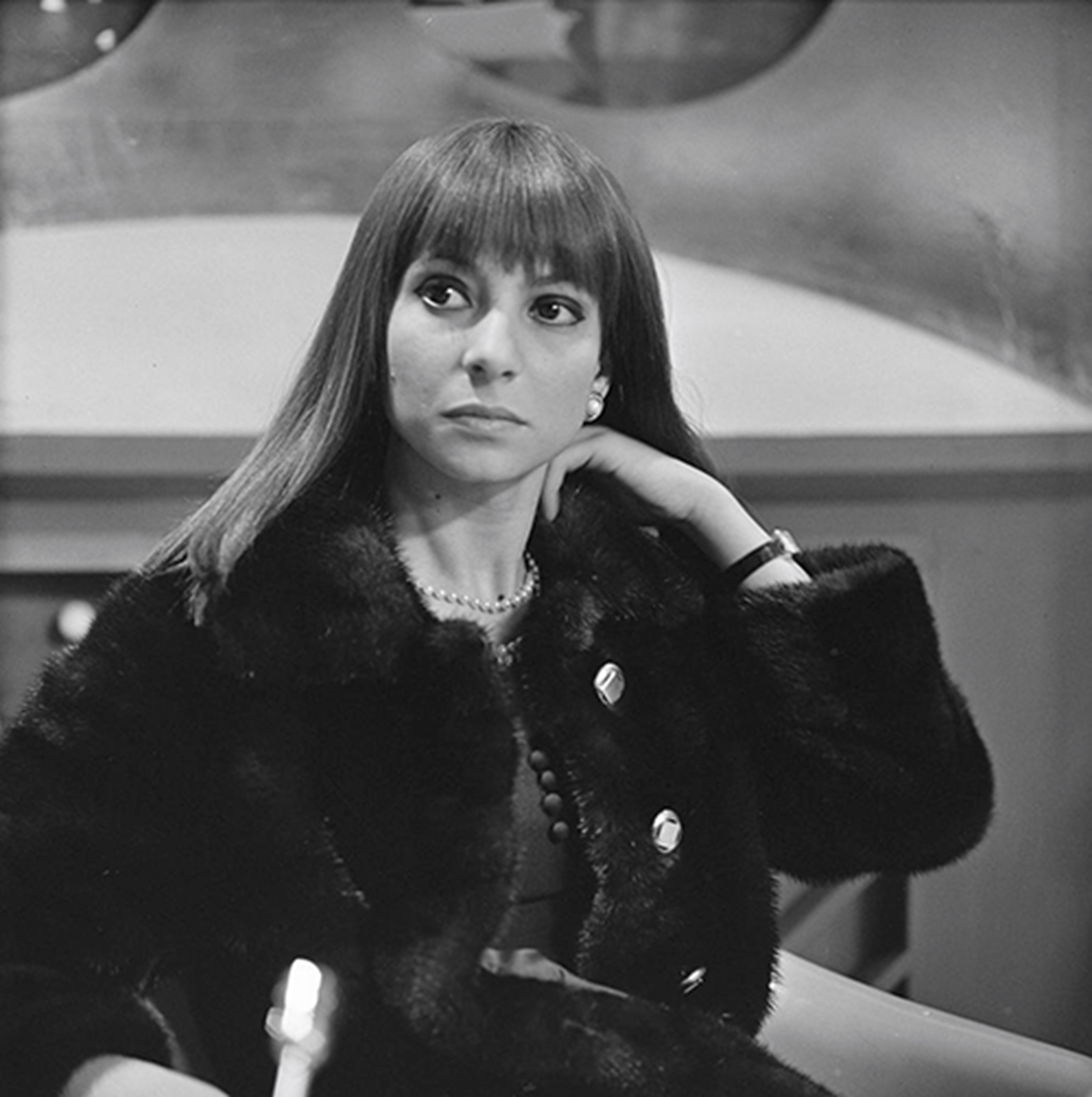 Esther Ofarim at Dutch TV programme Fenklup, 8 March 1968